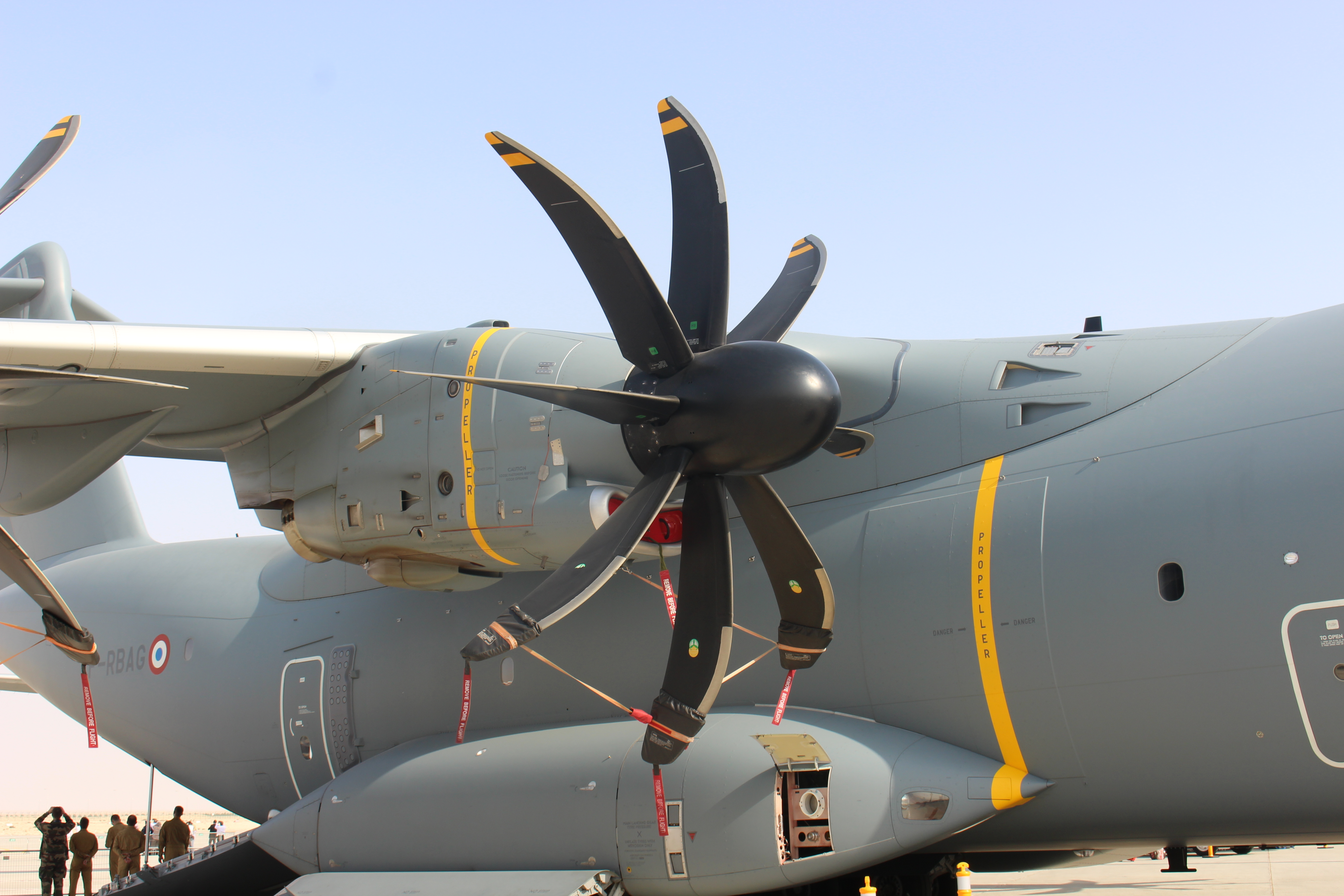 A400M Preopeller, Dubai Airshow 2015